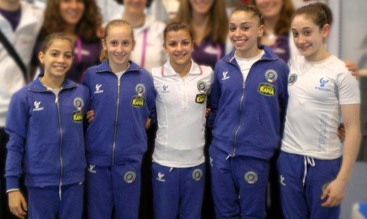 The italian national junior team at the 2012 European Women's Artistic Gymnastics Championships. Lara Mori, Tea Ugrin, Elisa Meneghini, Enus Mariani, Alessia Leolini.